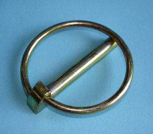 Lynch pin (20th century example)